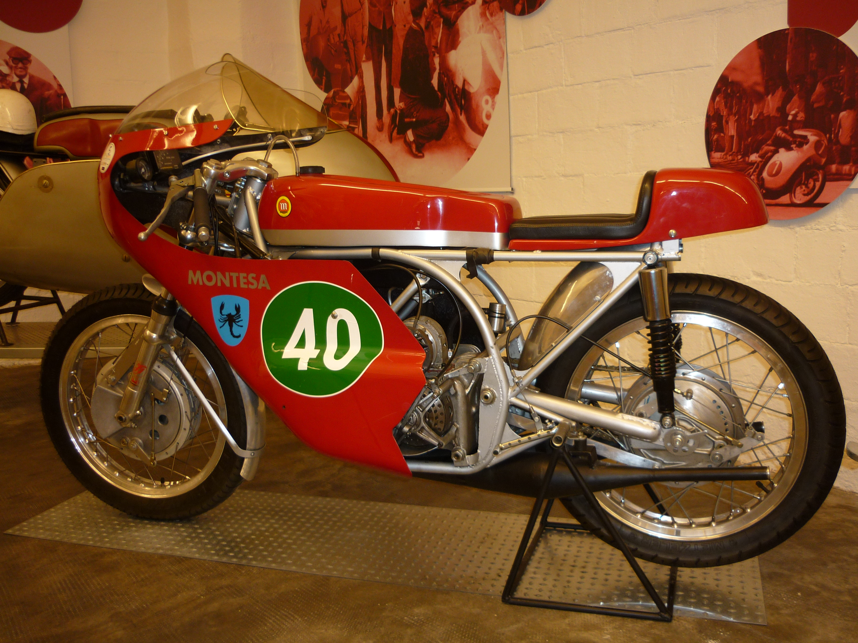 Montesa 250cc Two Cylinders. Developed with Francesco Villa in 1966, it fits a 2 horizontal cylinders engine with a double rotary valve and mixed air/water cooling. It was ridden by Villa, JM Busquets, Salvador Cañellas and Jaume Alguersuari